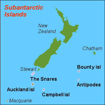 Map (rough) of Subantarctic islands, New Zealand, own work composed from various mapreferences